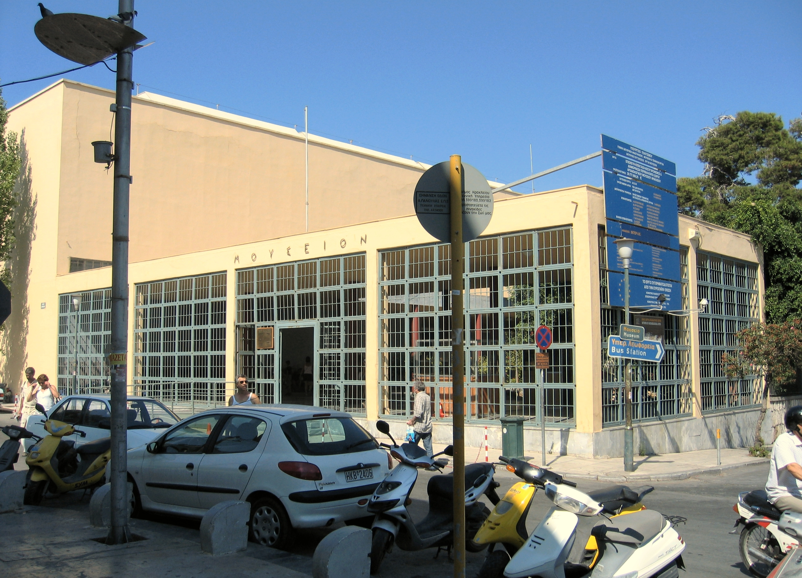 Building of the Archaeological Museum of Heraklion.